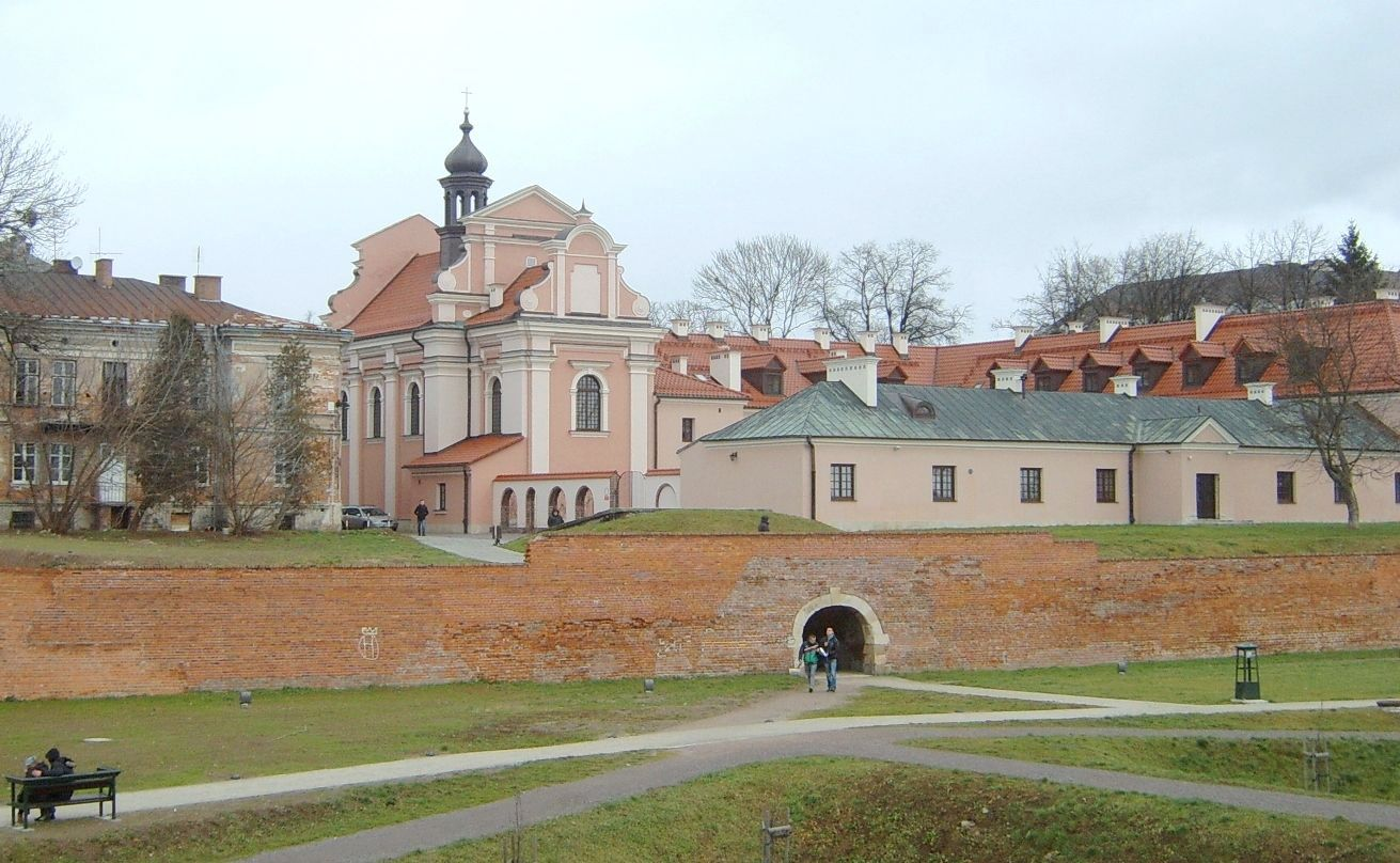 Water gate in Zamość Fortress walls